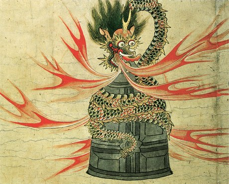 (Woman who transformed into a serpent-demon out of the rage of unrequited love) from the Dōjō-ji Engi Emaki (道成寺縁起絵巻)